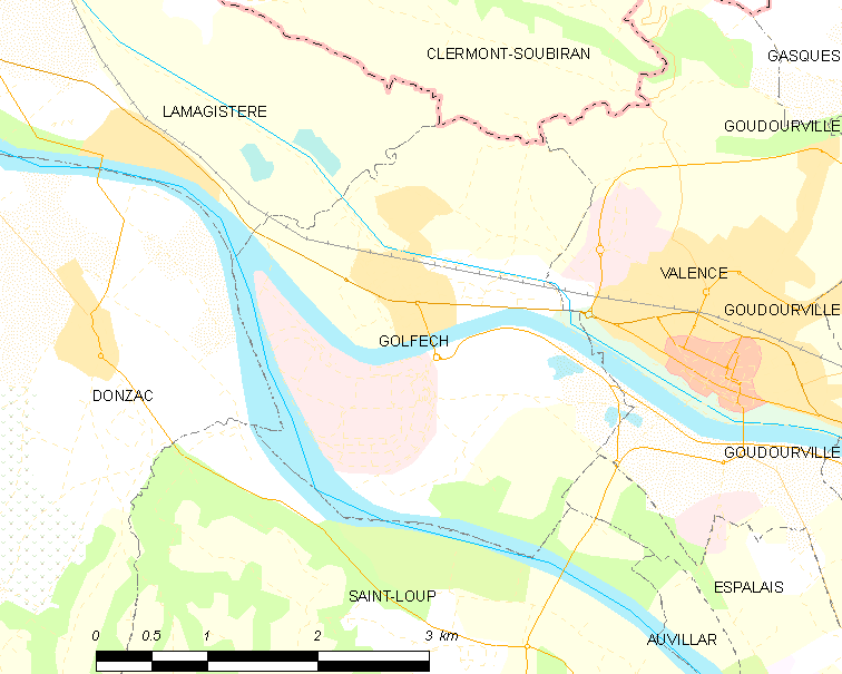 Map of French municipality Golfech